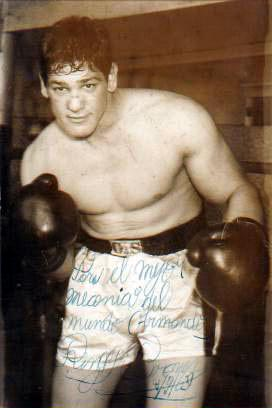 Exhibition photo of Argentine boxer Oscar Ringo Bonavena.